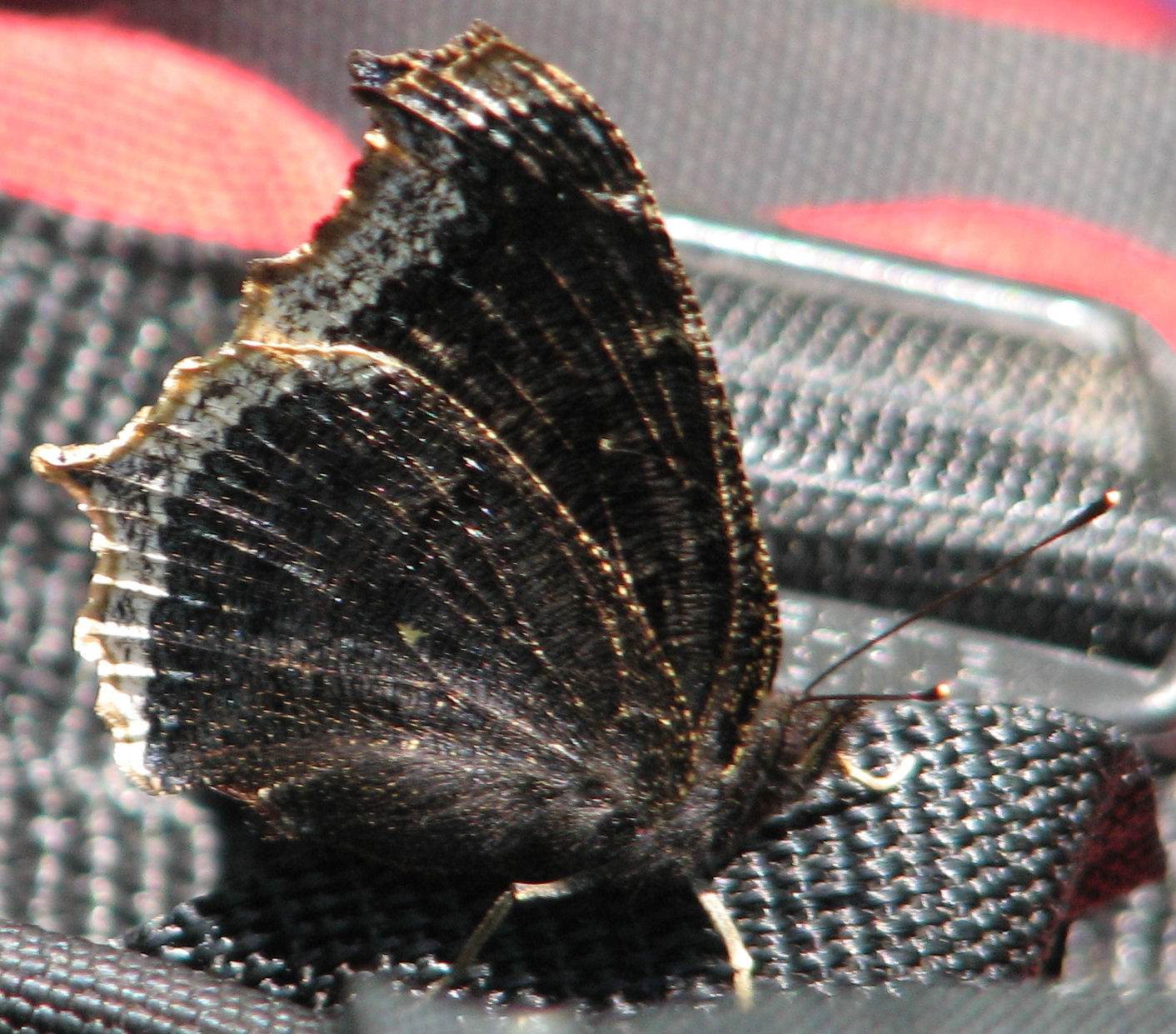 Mourning Cloak (Nymphalis antiopa) in Lady Evelyn-Smoothwater Park, Temagami, Ontario